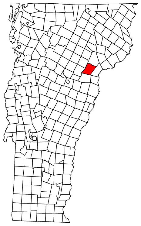 Description: Map of Vermont towns with Peacham highlighted Source: Map created by Jared C. Benedict on 26 March 2004. Copyright: © Jared C. Benedict.